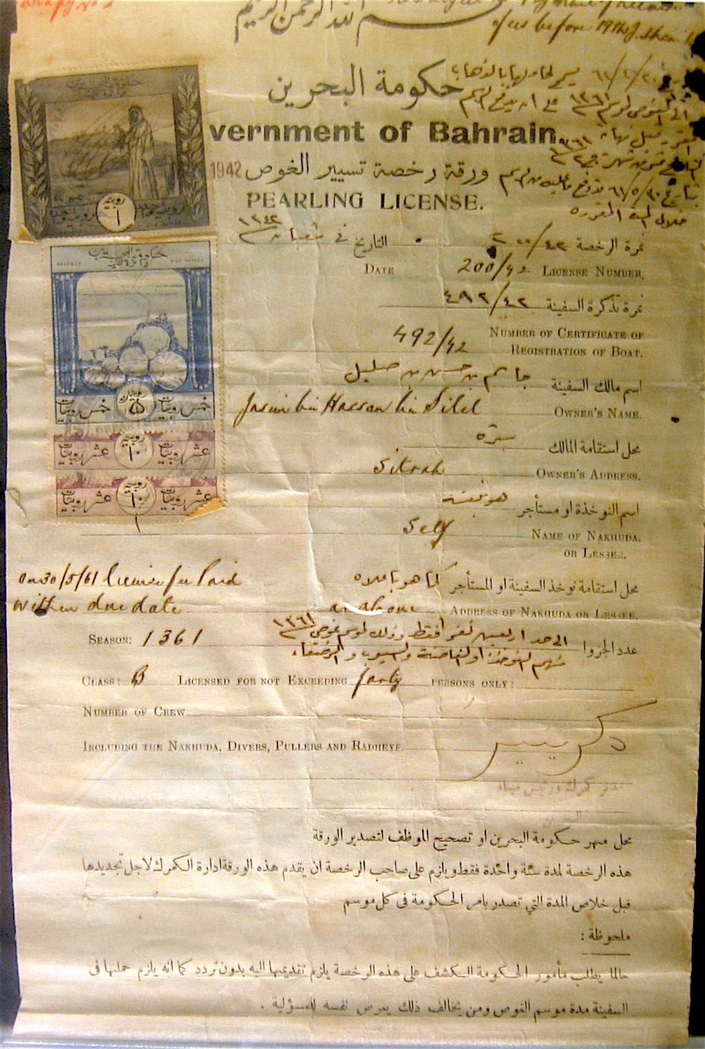 Pearling license issued by the Government of Bahrain in 1942. The license is issued to a Jassim bin Hassan bin Salil, a self-employed pearl diver from Sitra.